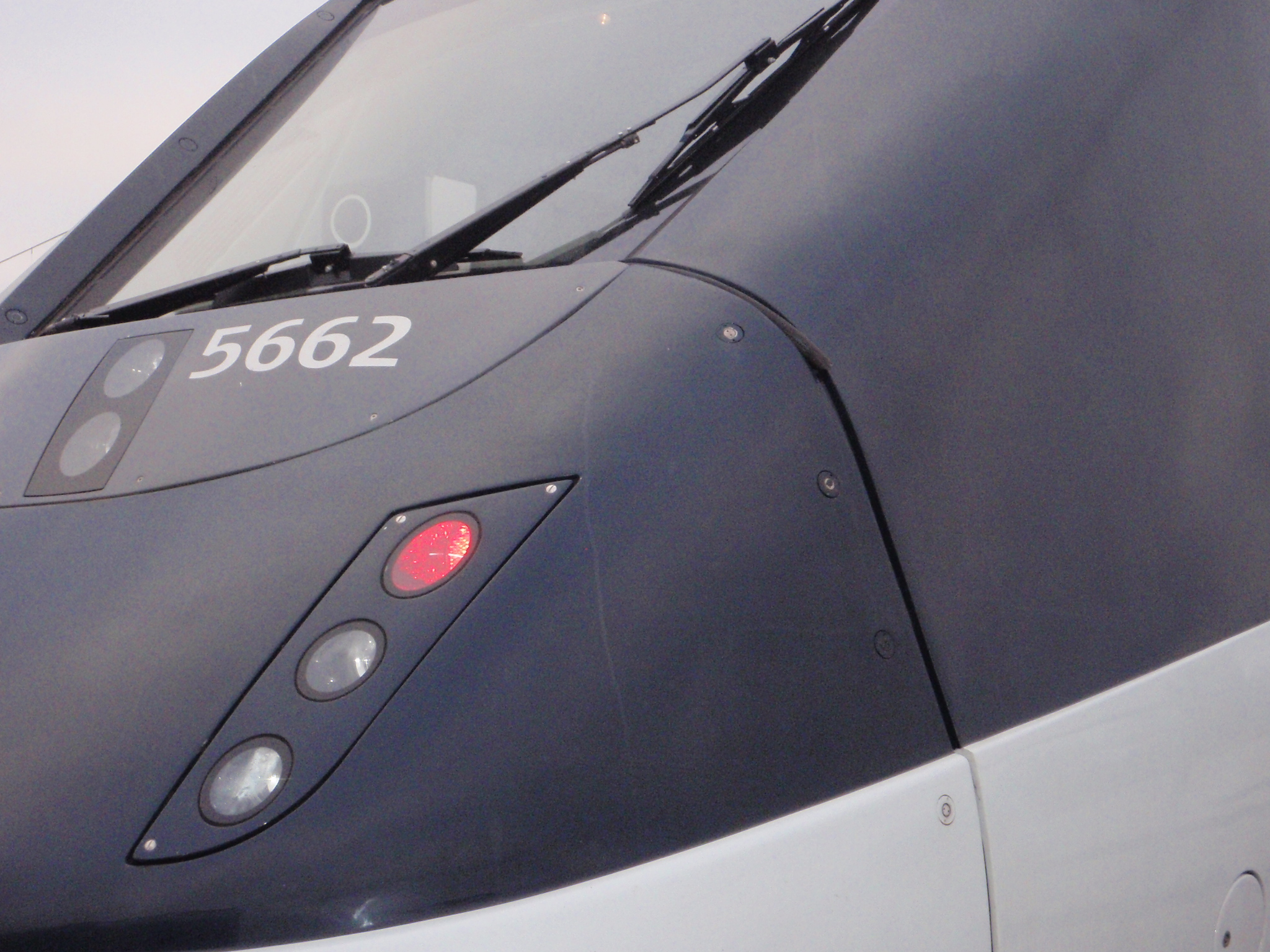 IC4 unit 62 at Sonnesgade in Aarhus